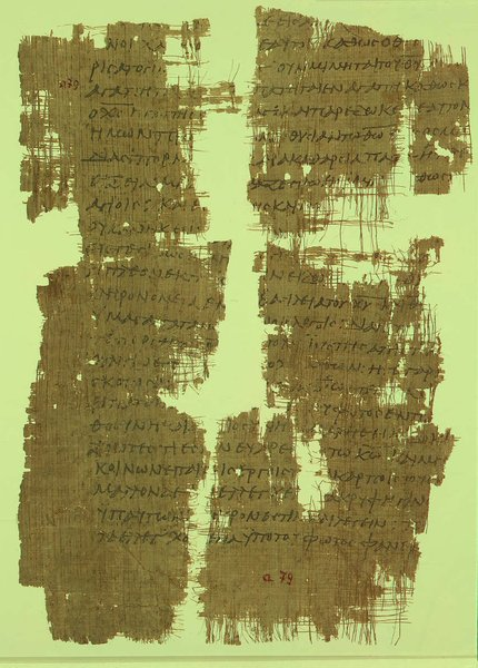 reverso of Papyrus 49